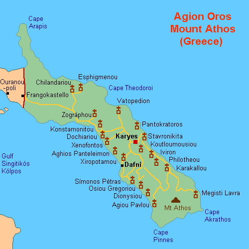 Map (rough) of Athos, Greece, own work composed from various references